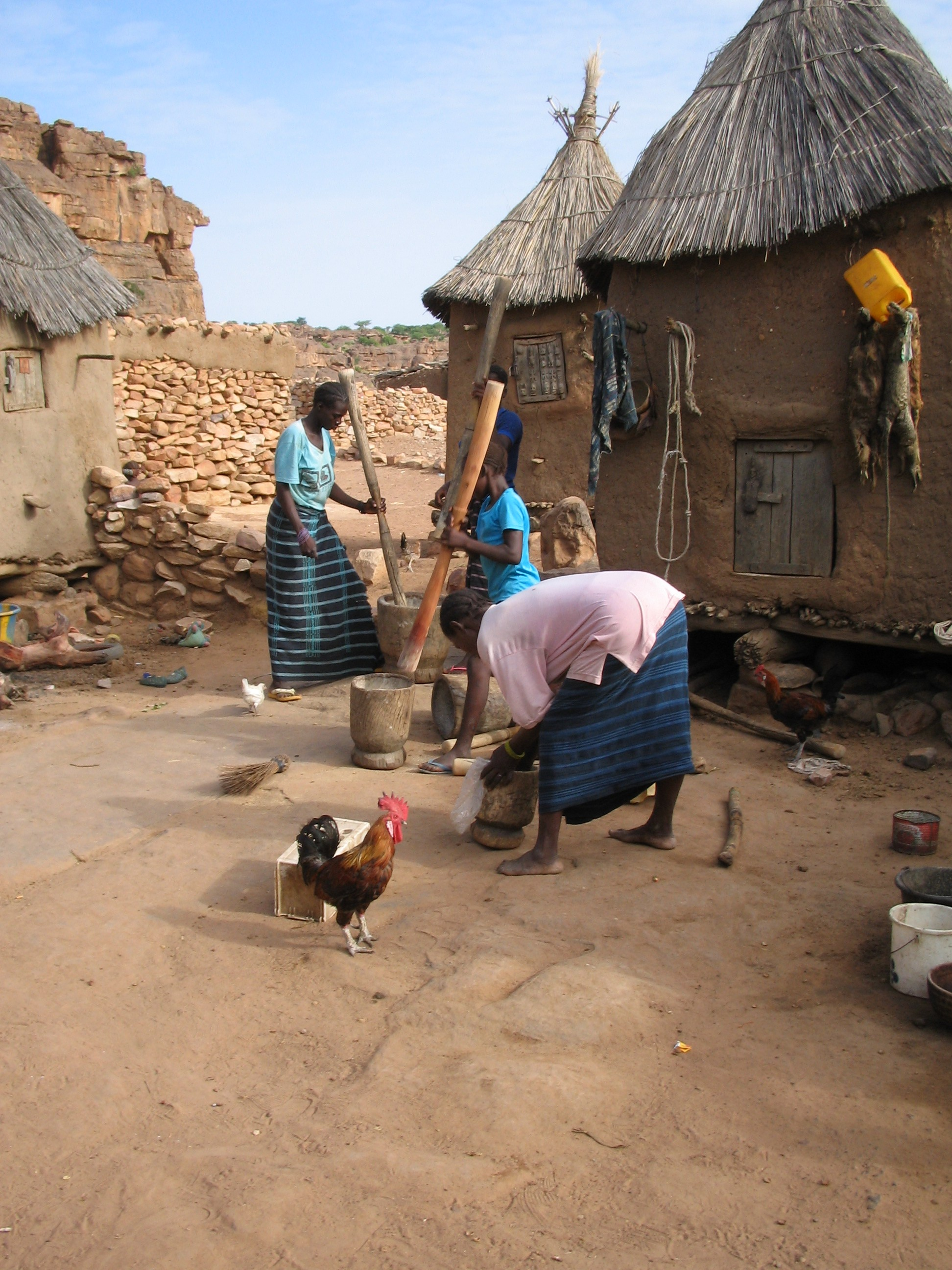 Women pounding millet in a village in Dogon country, Mali.